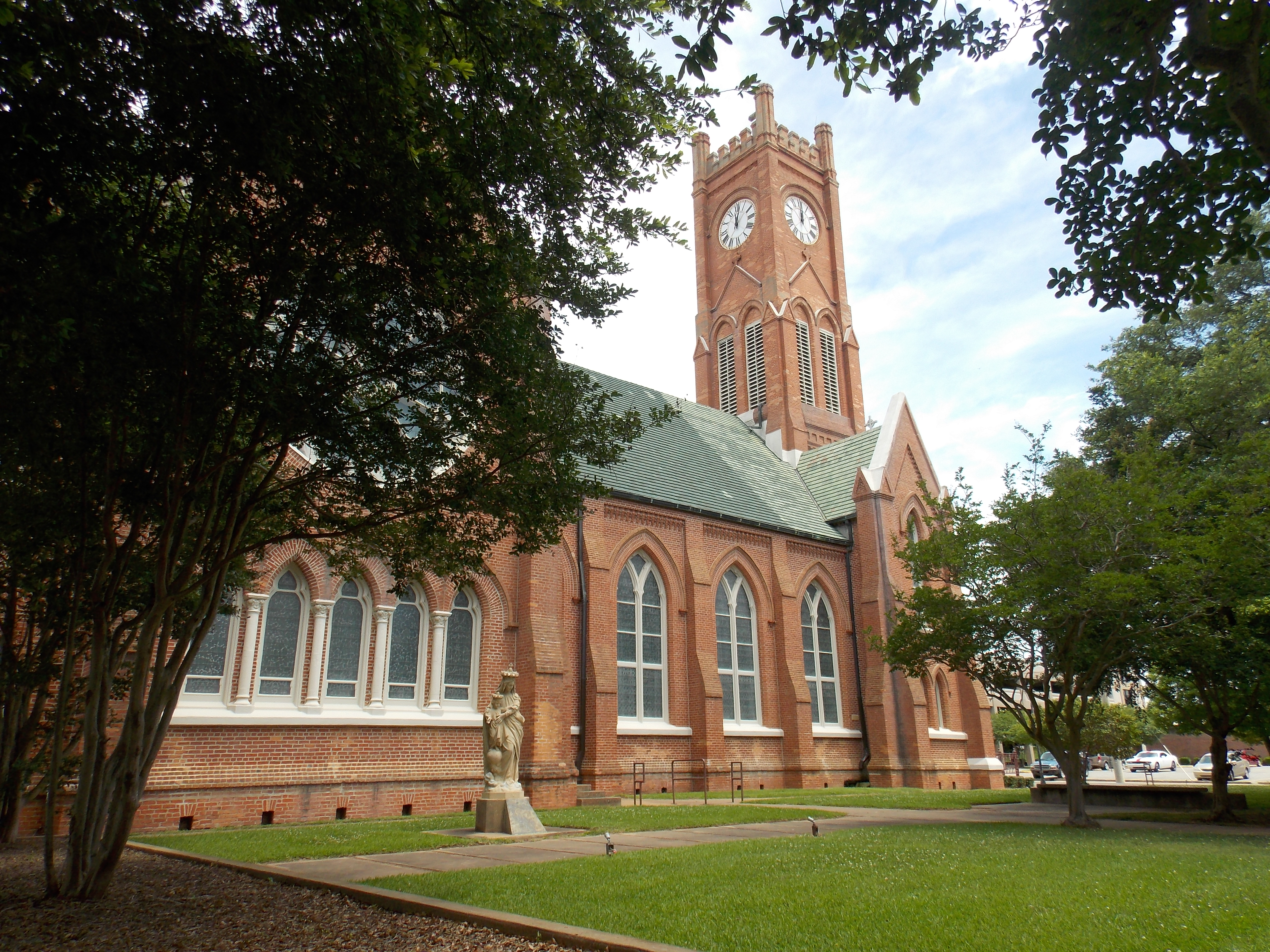 St. Francis Xavier Cathedral in Alexandria, Louisiana. It is listed on the National Register of Historic Places.